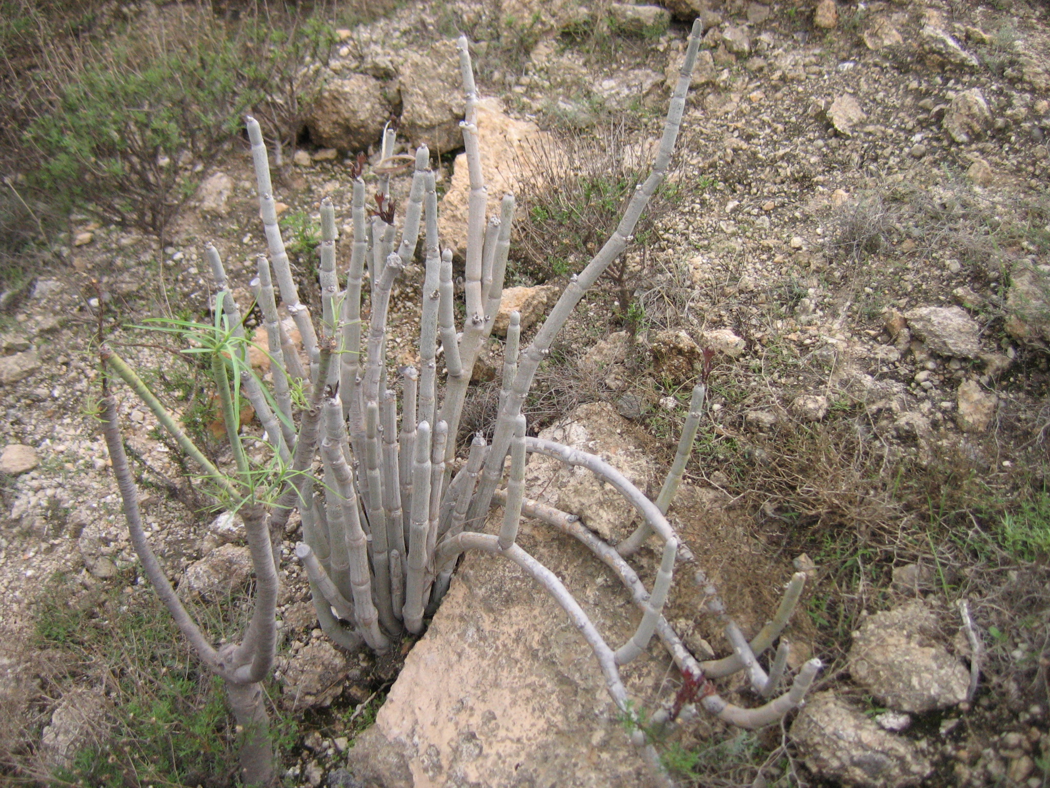 Ceropegia fusca Bolle, growth form, El Desierto, southern part of Tenerife, Canary Islands